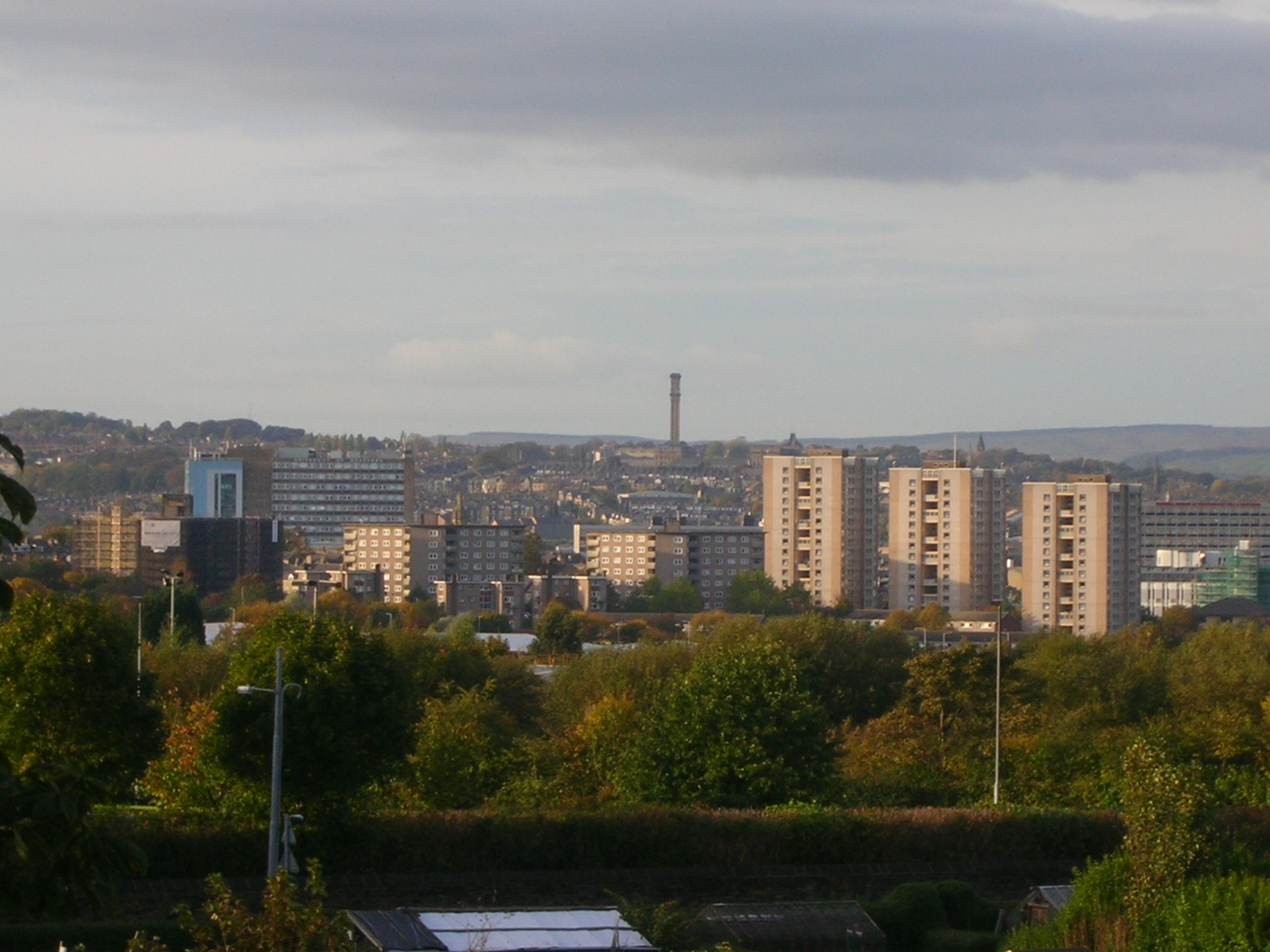 A view of Bradford, in West Yorkshire, England